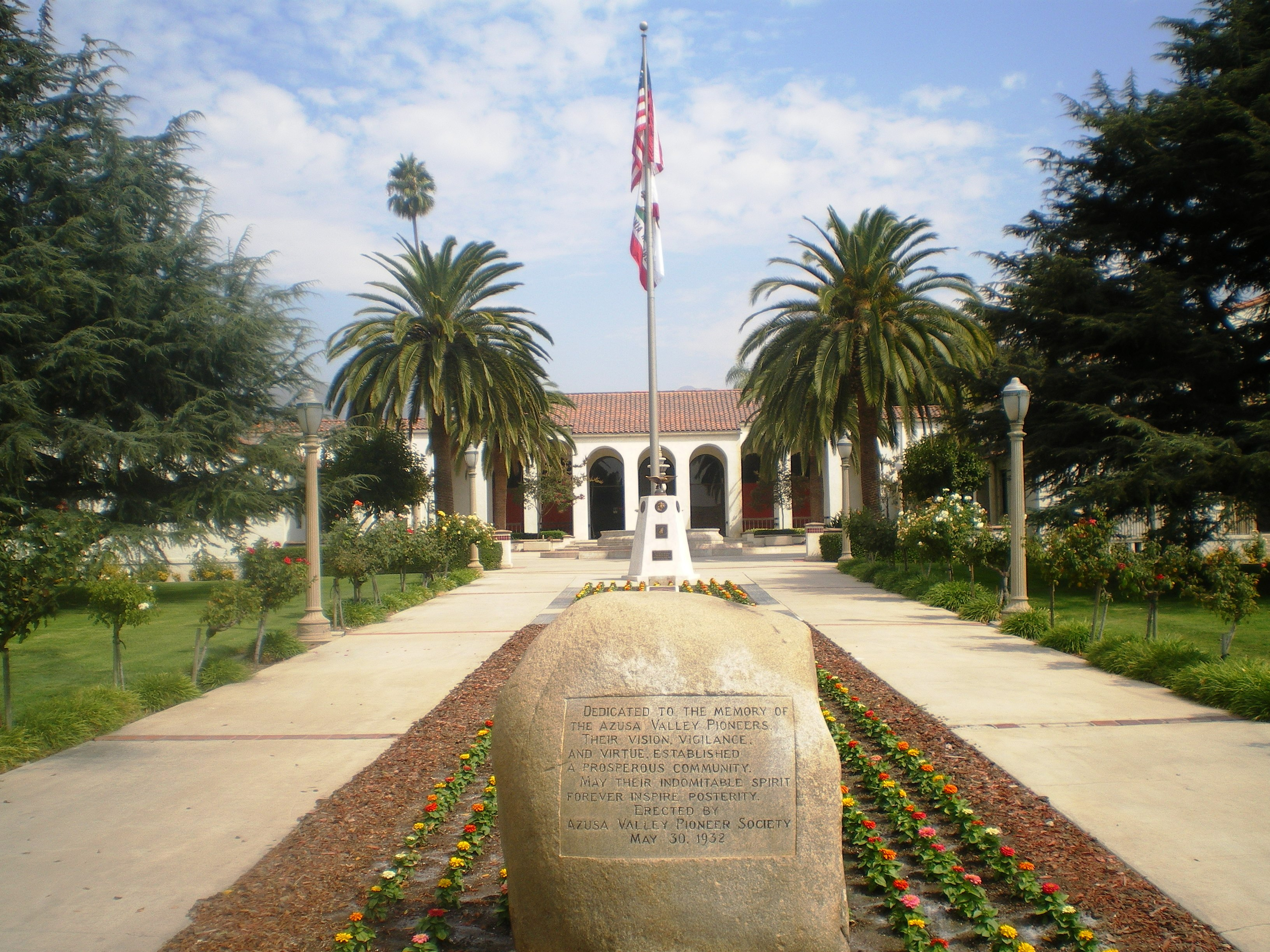 Azusa City Hall, at the Azusa Civic Center — at 213 Foothill Boulevard (historic Route 66), in Azusa, Los Angeles County, California. The Spanish Colonial Revival style city hall wing was completed in 1929, and is on the National Register of Historic Places.